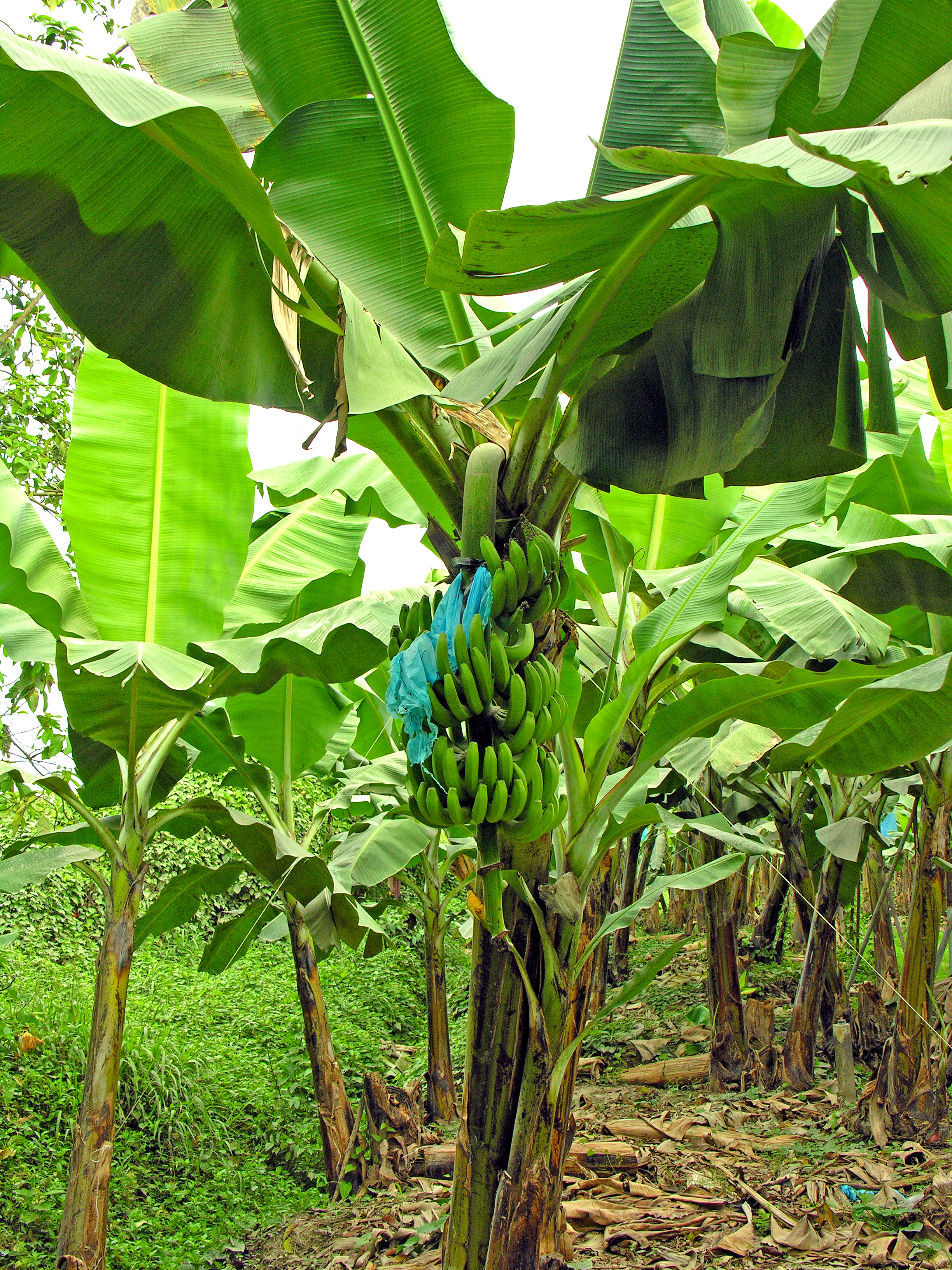 After leaving the site of Quirigua we saw this mechanical rail system that takes bananas to the shipping area. I was surprised to see how bananas grow on the tree – pointing up! The blue bags are to help stop bugs etc. from getting at the fruit.